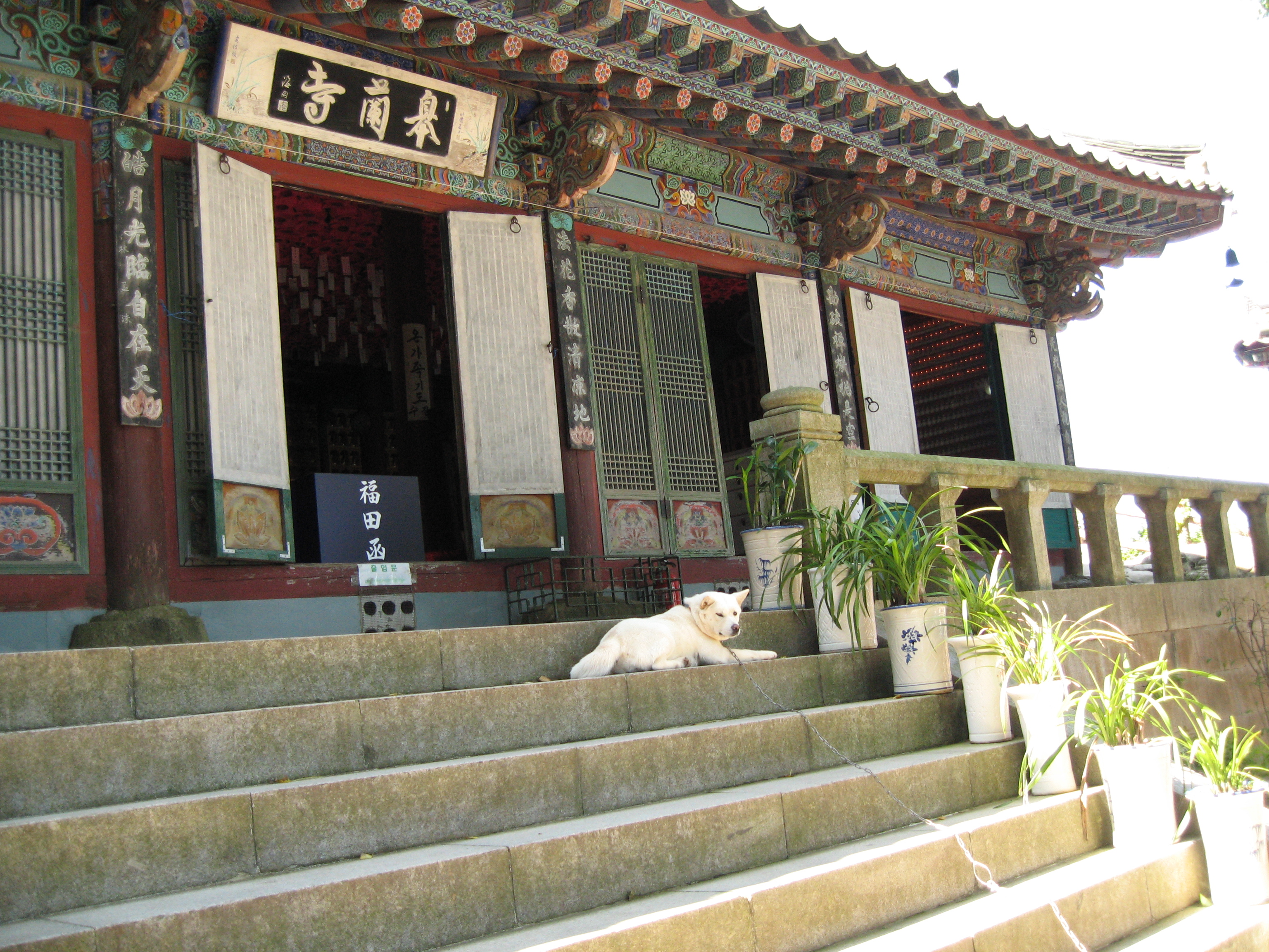 Goransa Temple, in Buyeo, Chungcheongnam-do, South Korea